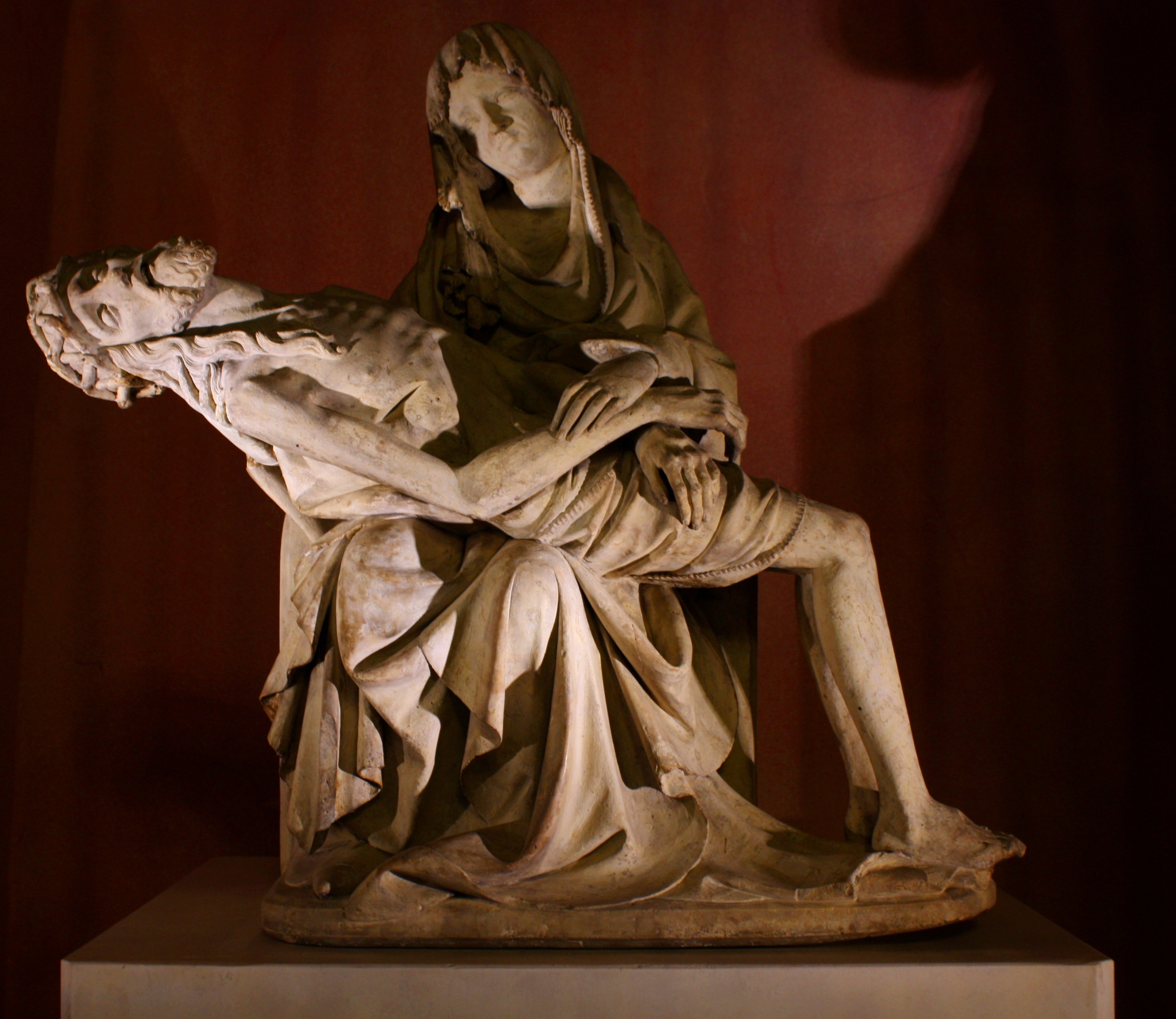 Cracow, St Barbara Church, Pieta